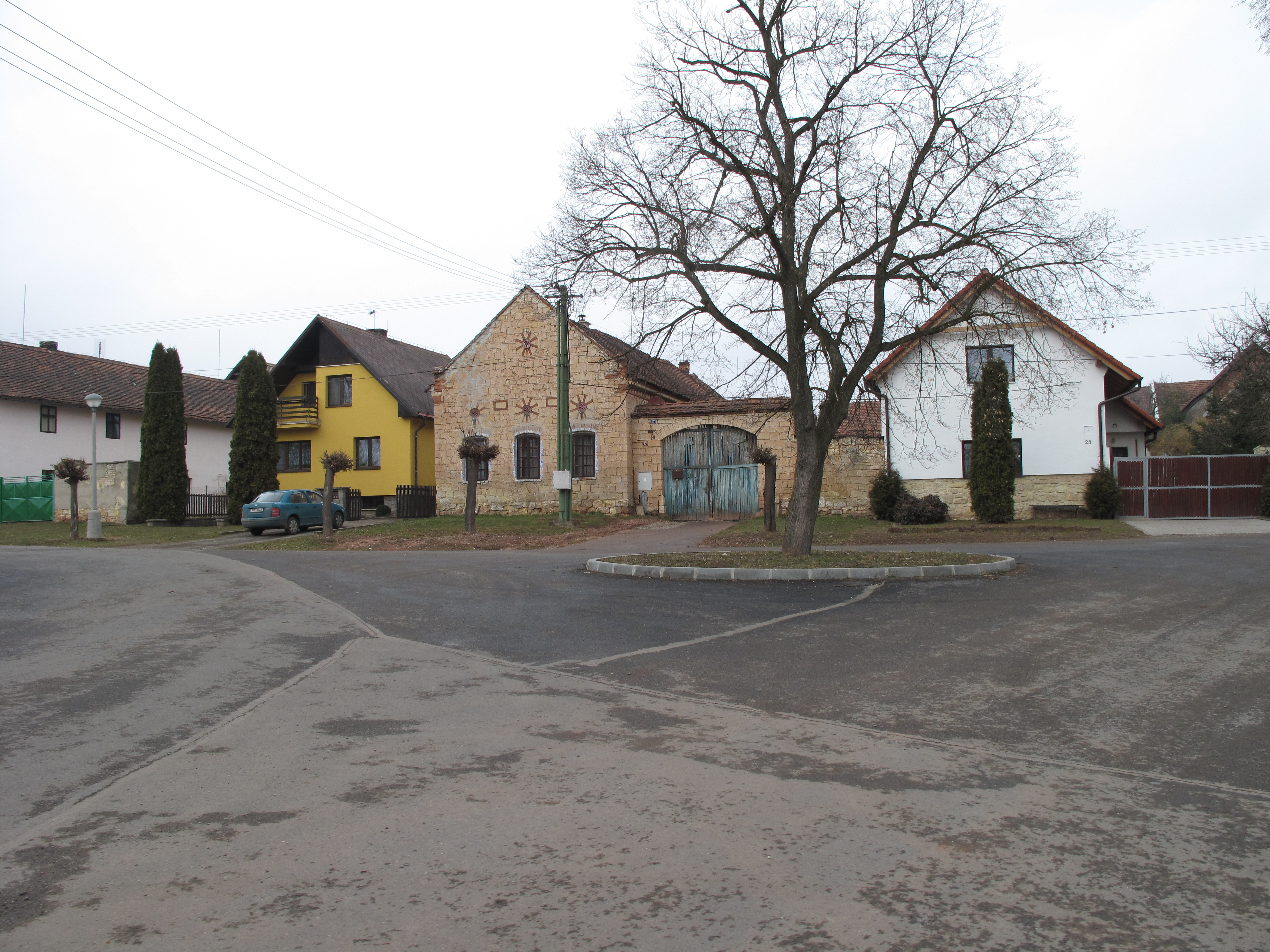 Opoka house in Nesuchyně village, Rakovník District, Czech Republic.